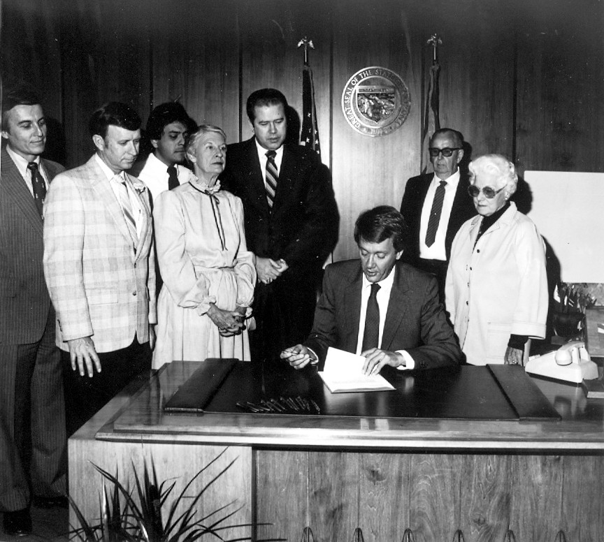 Senator Billy Davis In Arizona Governor Bruce Babbitt Office getting his Housing Bill signed.